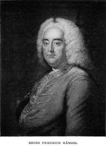 Depicted person: George Frideric Handel – German, later British Baroque composer